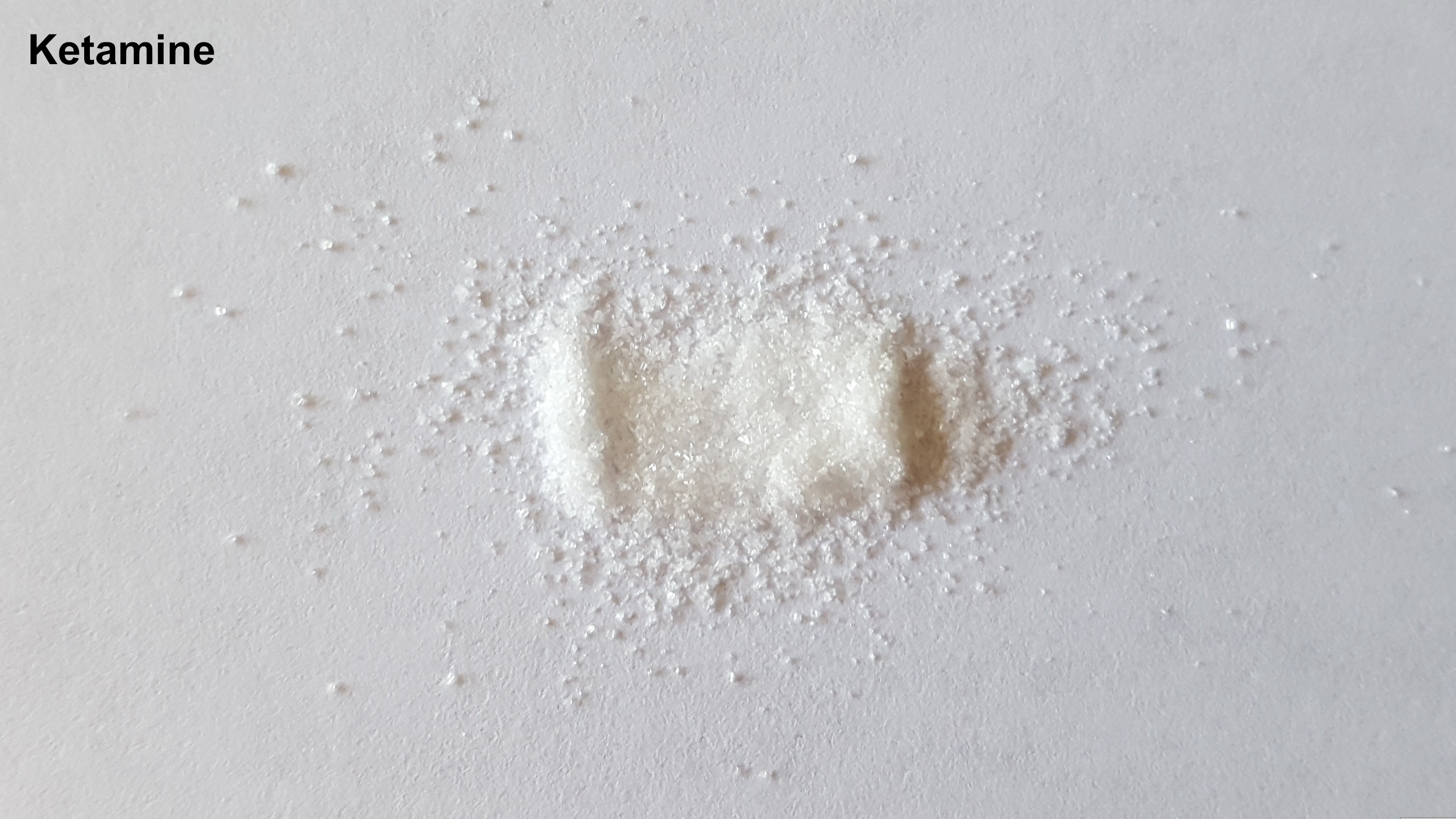 Ketamine was first synthesised in 1962 and emerged as a popular recreational drug in the 1990s.